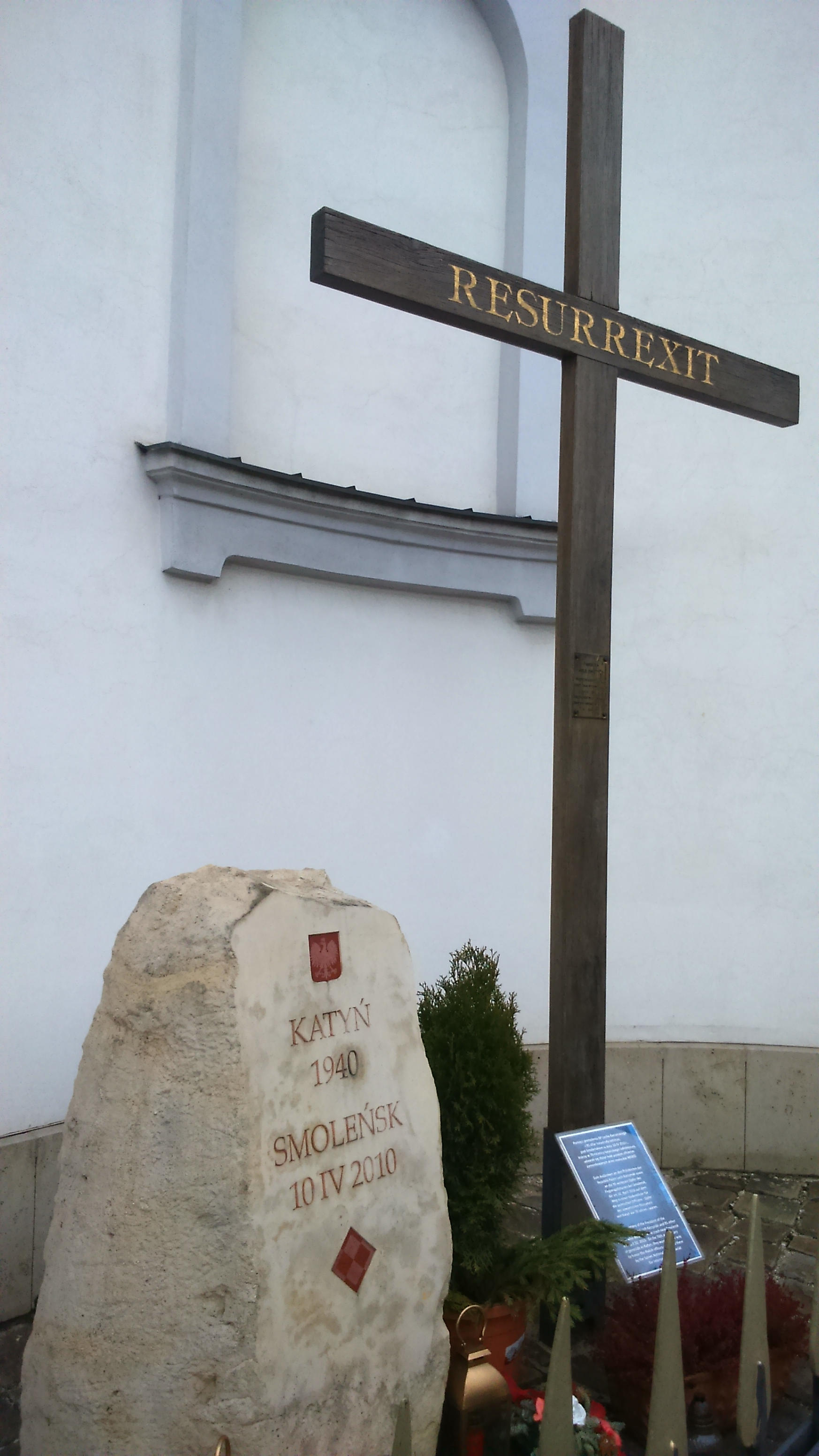 Memorial stone to Katyn massacre and 2010 Polish Air Force Tu-154 crash in Gardekirche.